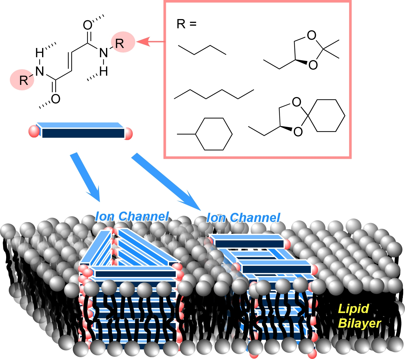 Transmembrane chloride channel formed through self-assembly of small-molecule fumaramides.